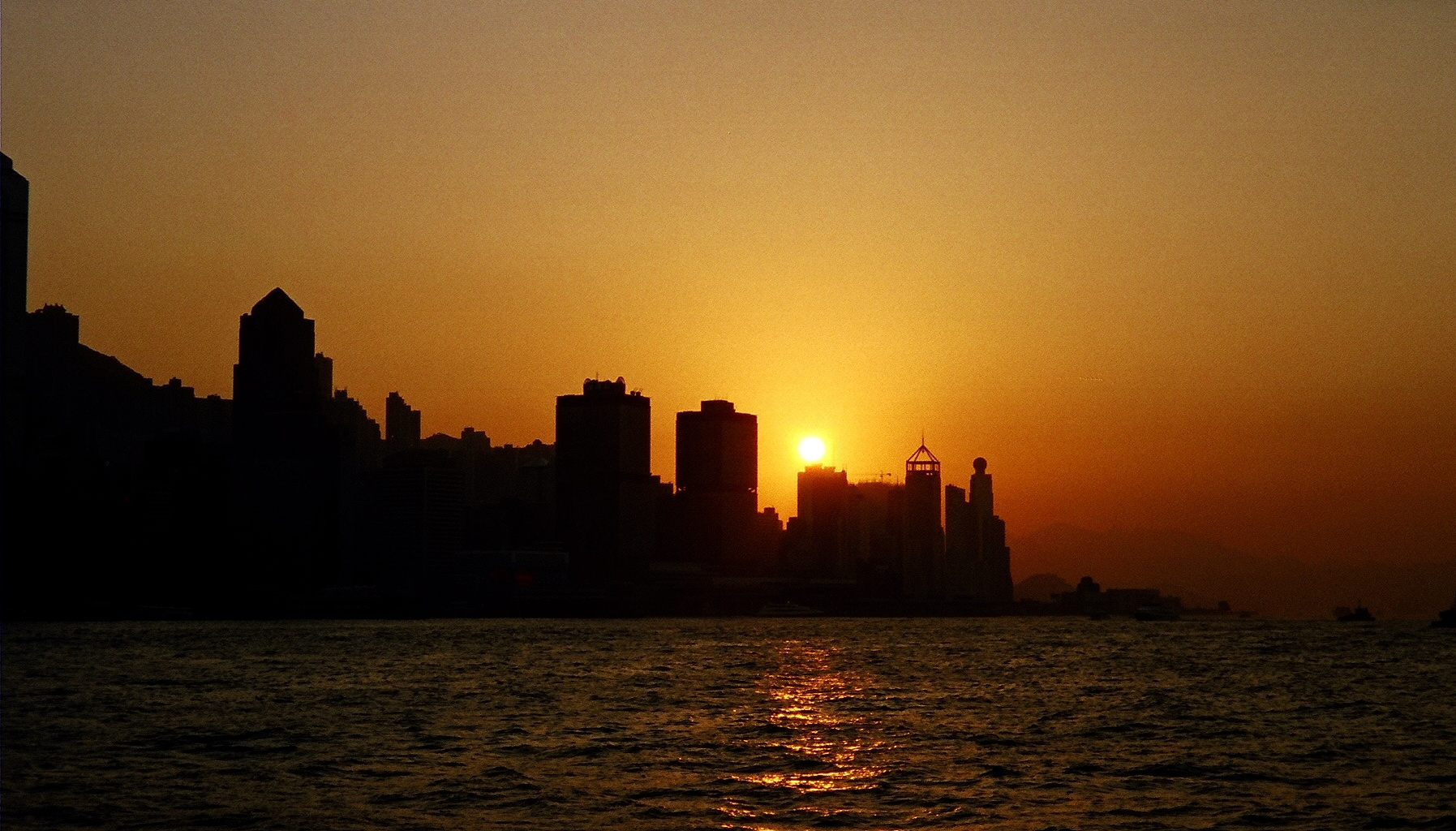 Photo by Paddy Briggs